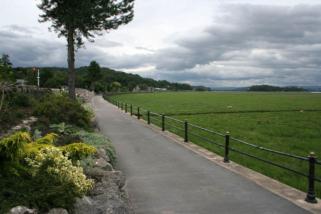 The Promenade, Grange-over-Sands. Looking northwards towards the station. The mainline railway crosses the Kent estuary at Arnside, SD4579 follows the shoreline past Grange-over-Sands to Kirkhead End near Kents Bank, SD3975 before it cuts inland towards Barrow-in-Furness SD2269. The colonisation by grass of the sands at Grange have created this surreal scene of sheep grazing on salt marsh where you would expect to see a sandy beach. The beautiful promenade gardens, the well-maintained railings, numerous benches looking out across Morecambe Bay and concrete ramps and steps leading down to the once sandy "beach" highlight the effect. See 502450 and 502451